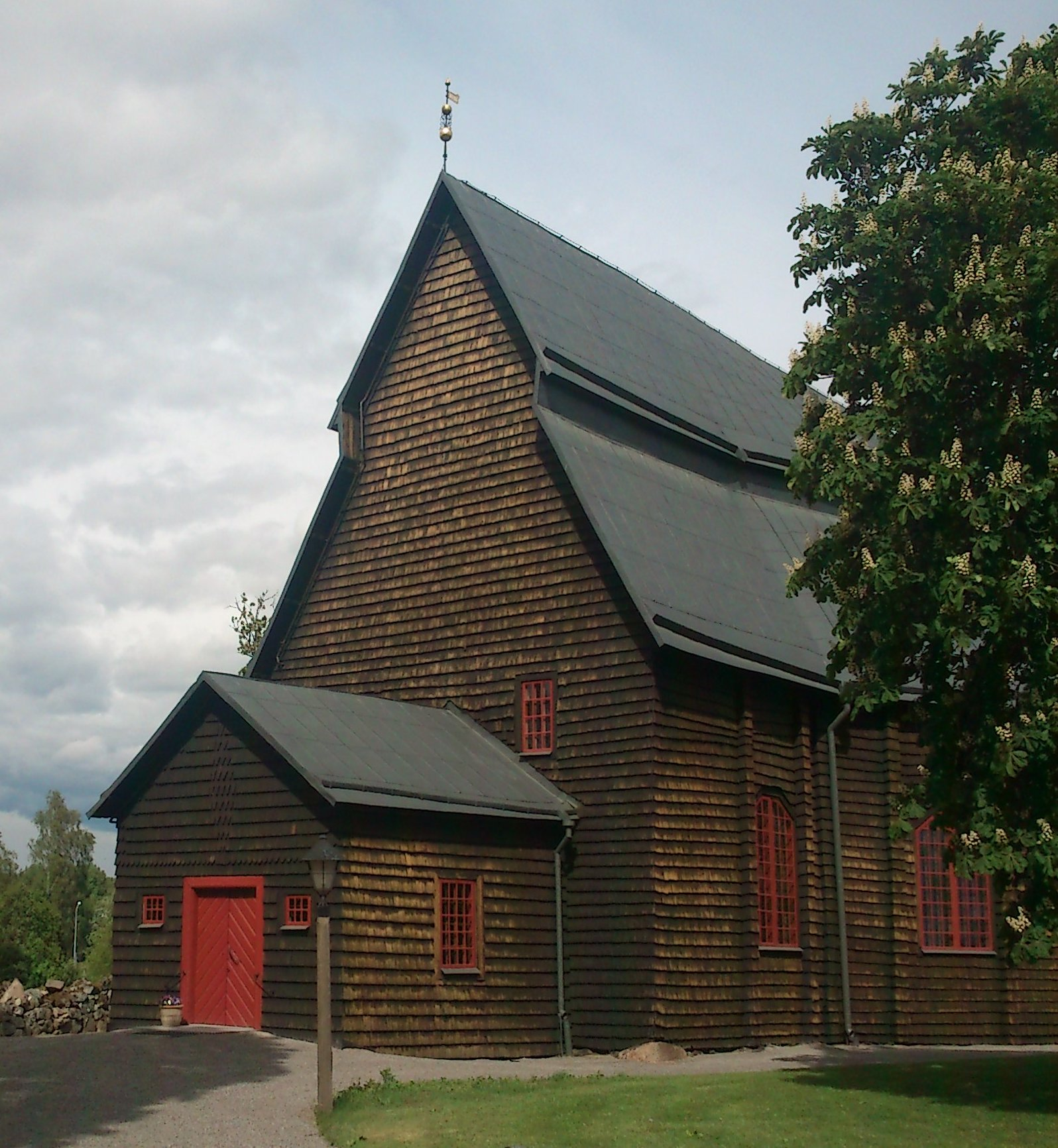 Entrance to Frödinge kyrka, diocese of Linköping